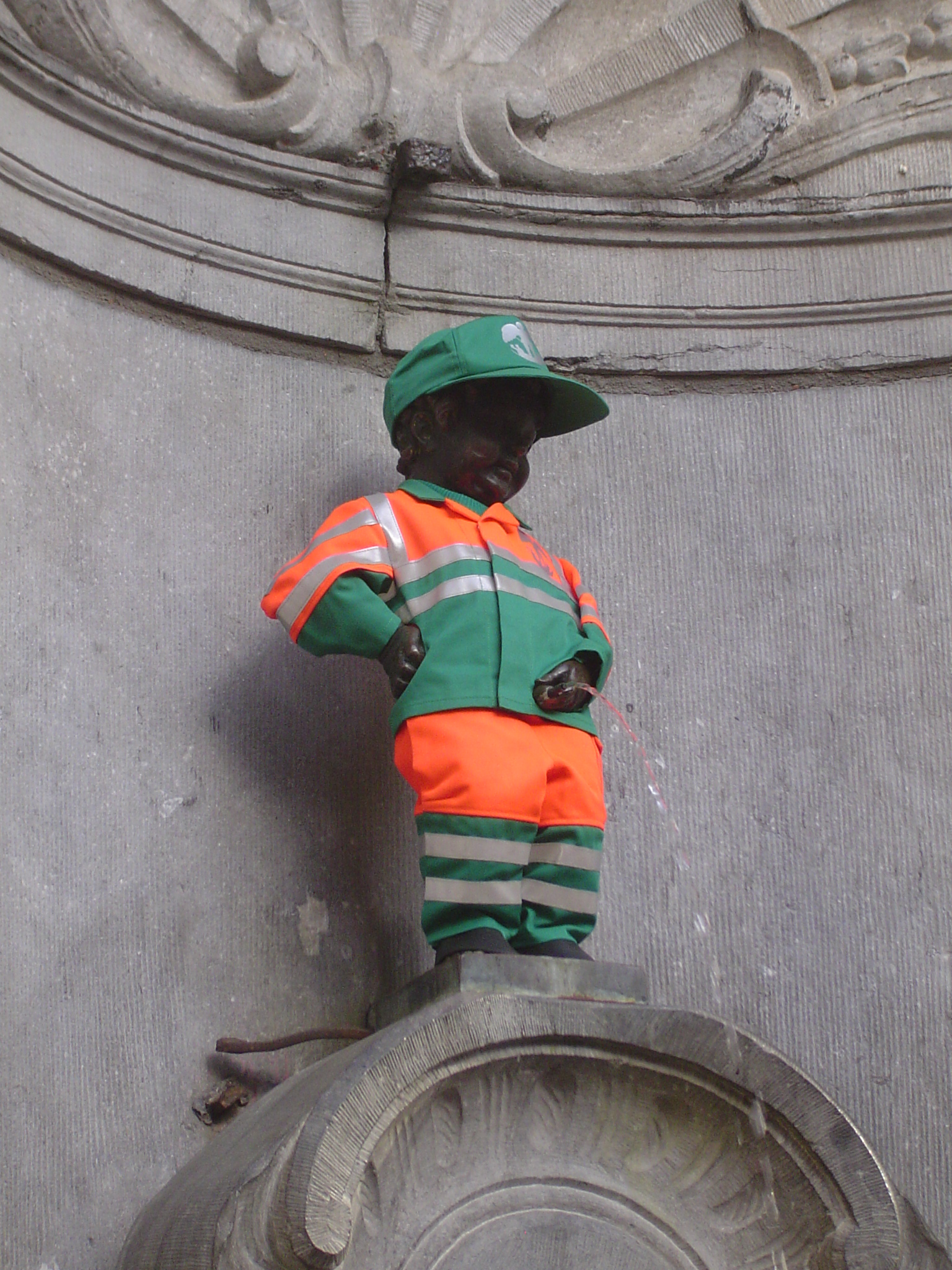 Manneken_Pis_dustman